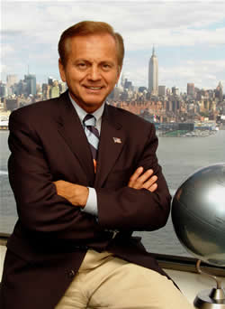 President Harold J. Raveche